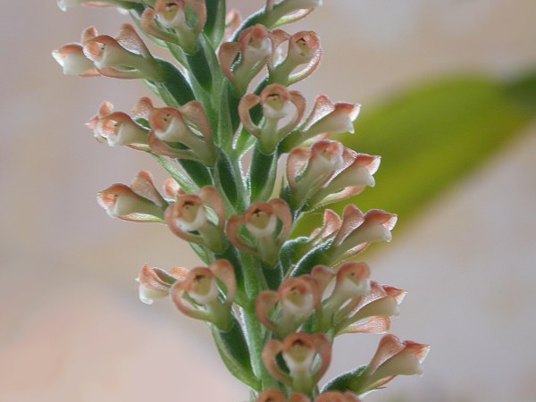 Sauroglossum nitidum